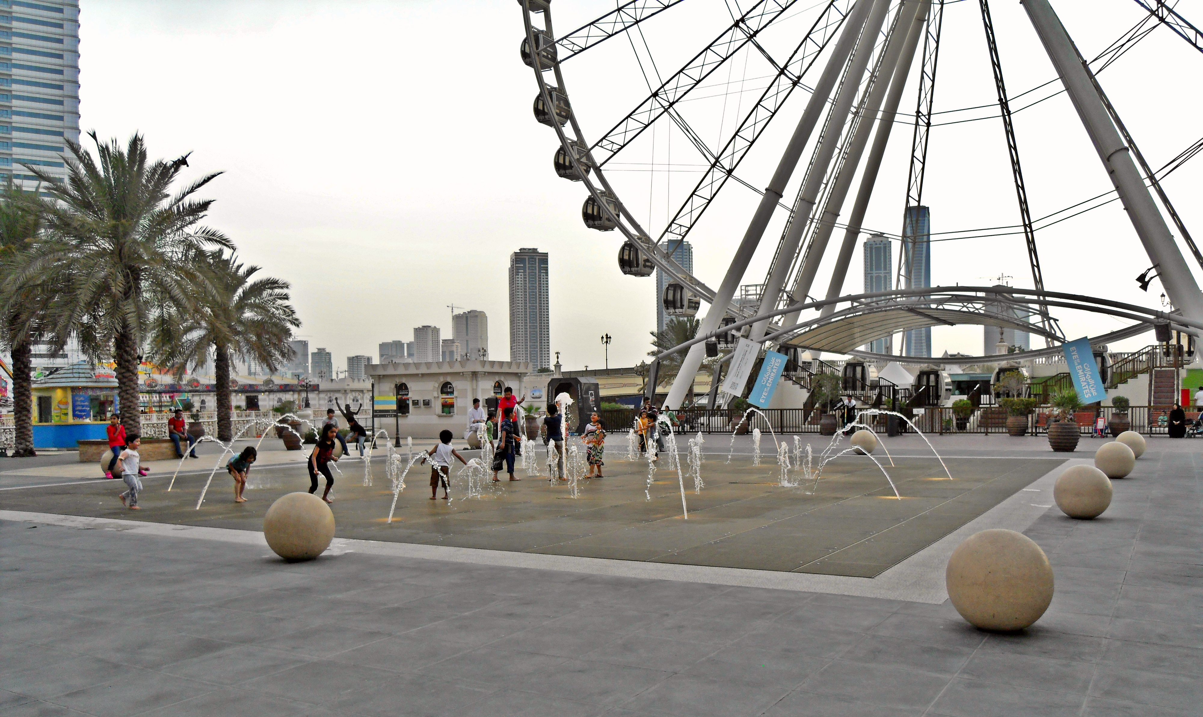 Small fountains near Eye of the Emirates at Al Qasba, Sharjah, United Arab Emirates.